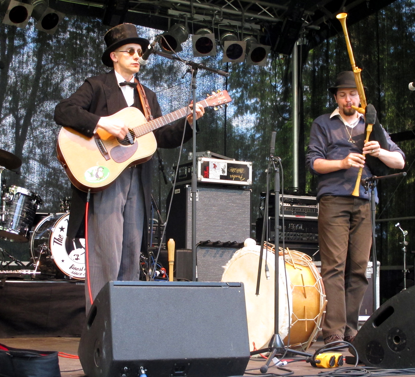 The duo D'Lompekréimer at the Fête de la Musique in Niederanven, Luxembourg